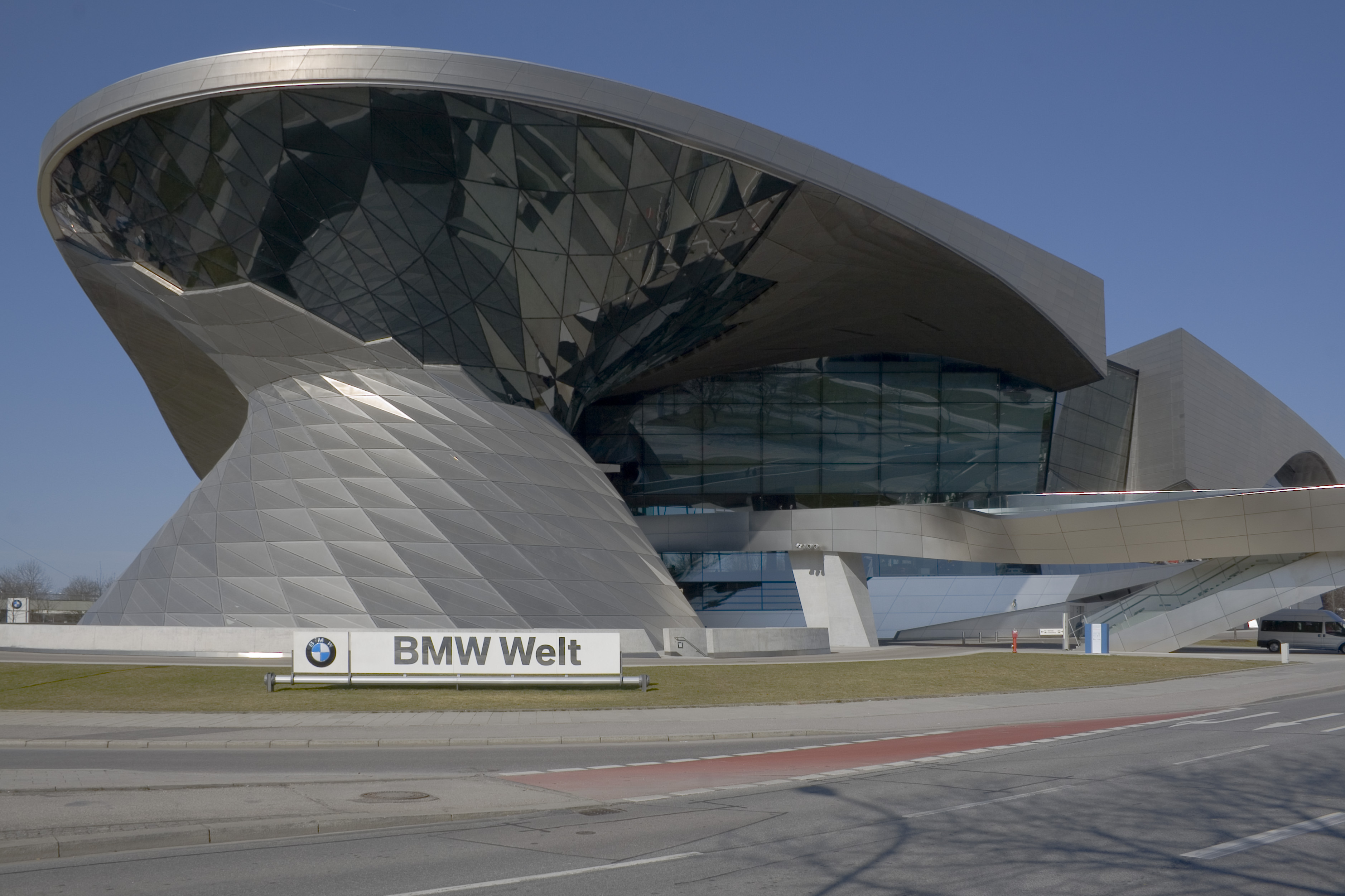 BMW Welt, Munich, Germany